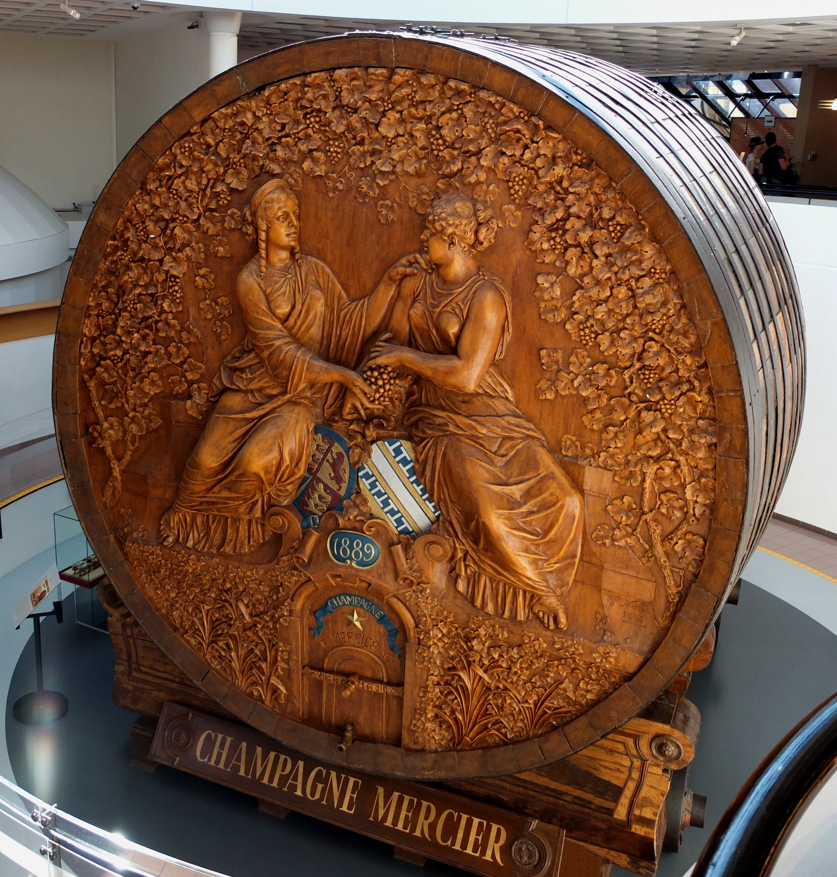 Oak barrel with a capacity of 200 000 Champagne bottles, Mercier (Épernay) for the world exposition 1889 in Paris